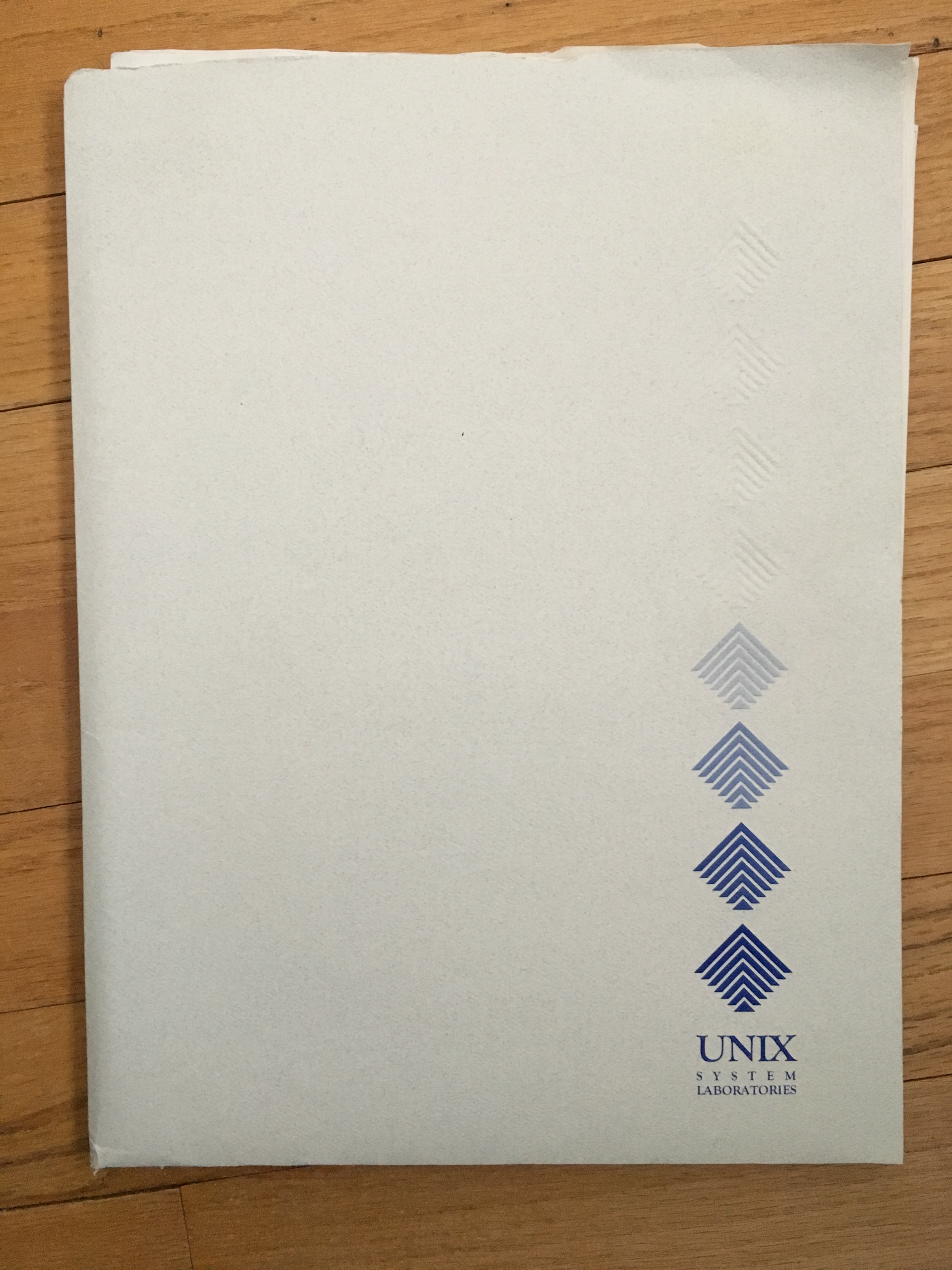 The front side of a Unix System Laboratories 9 x 12 inch presentation folder, that was also available to employees for the handling of papers. The folder has pockets on the inside and is from around 1993.